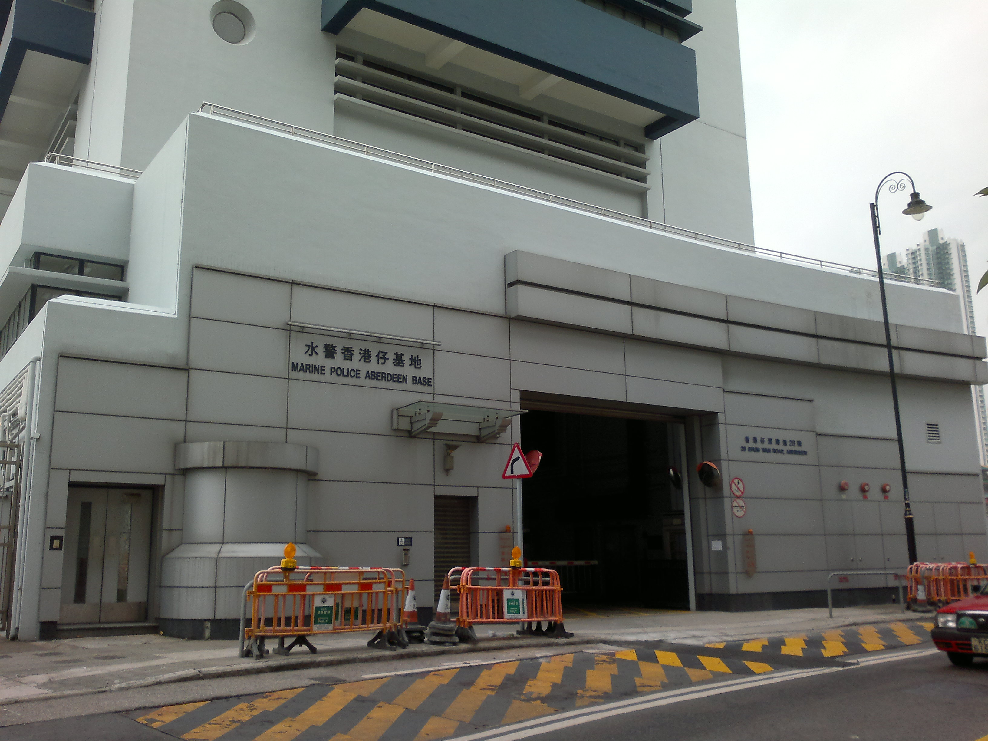 Marina Police Aberdeen Base